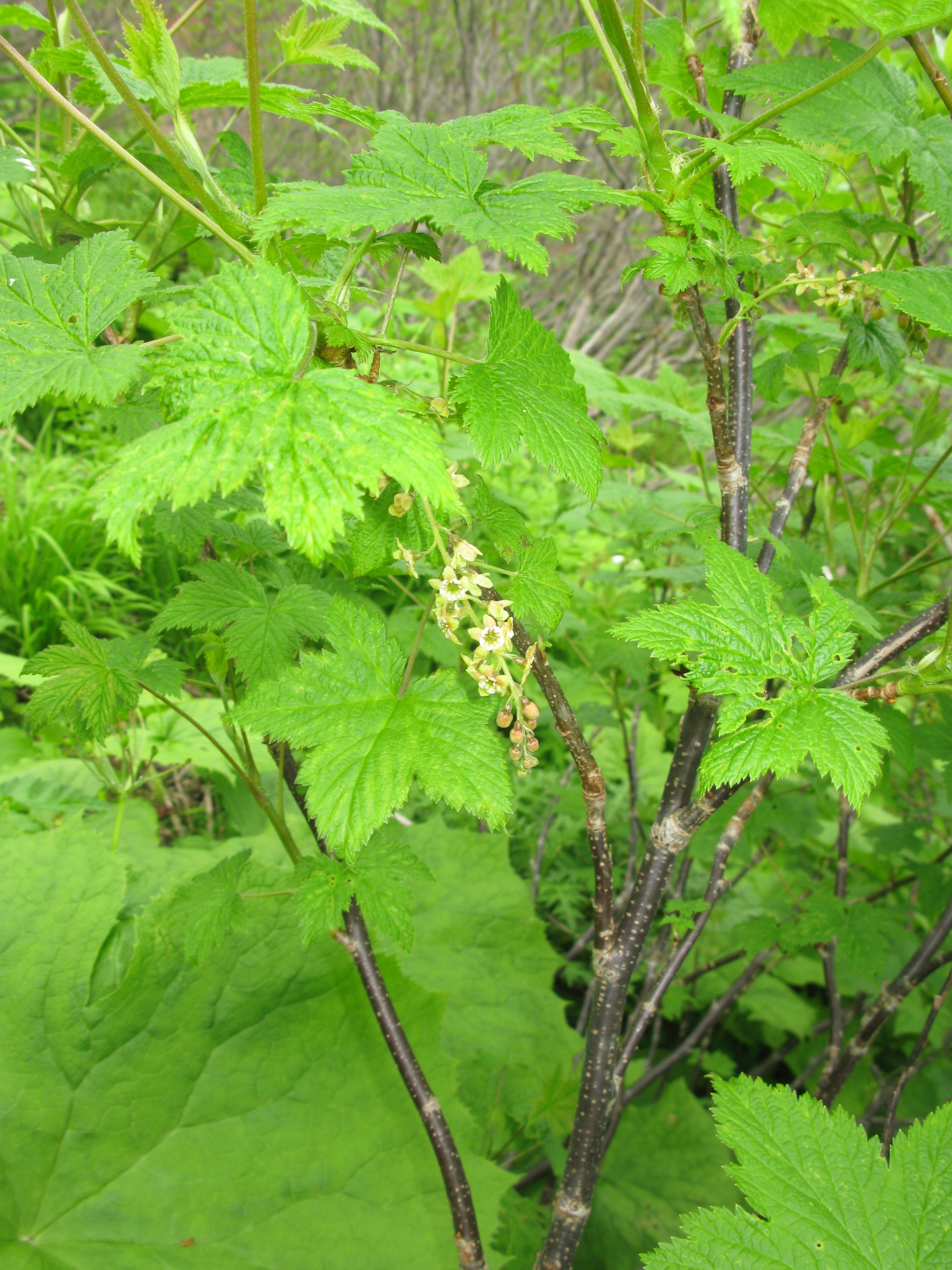 Ribes japonicum, Mt. Hiuchigatake, Fukushima pref., Japan